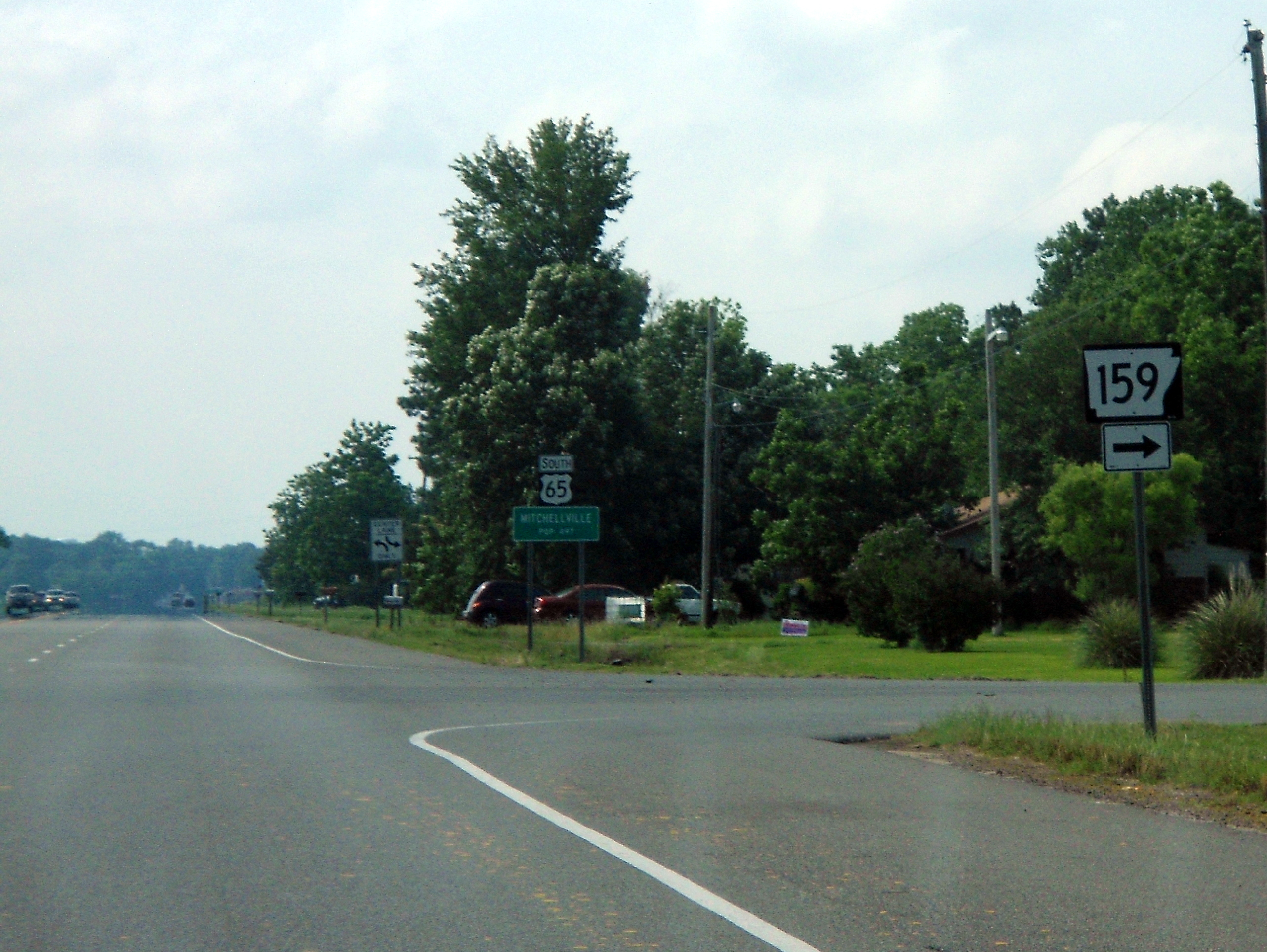 Southern terminus of Highway 159 at US 65 in Mitchellville, Arkansas